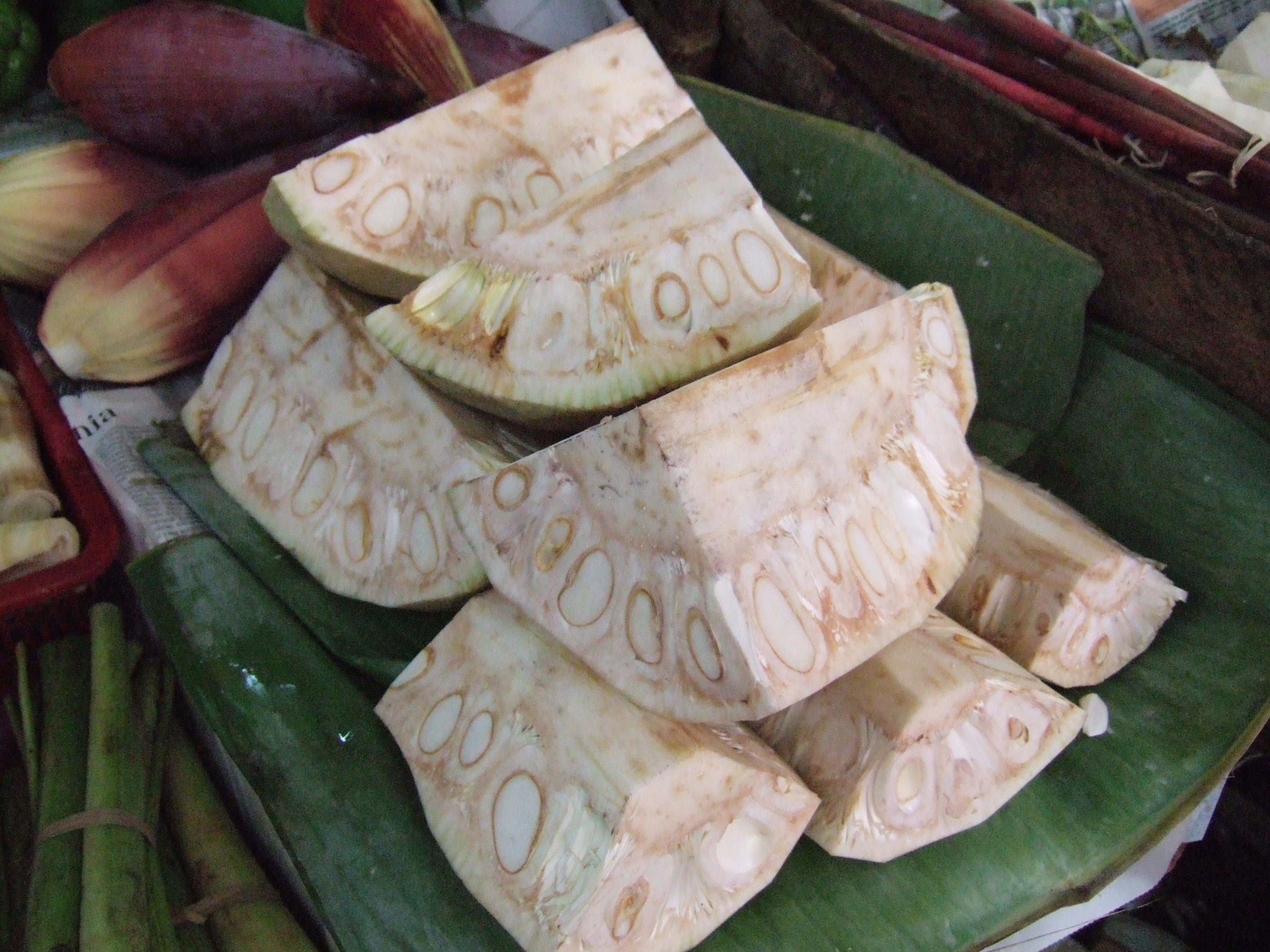 Artocarpus heterophyllus Lam. (young jackfruit for cooking).